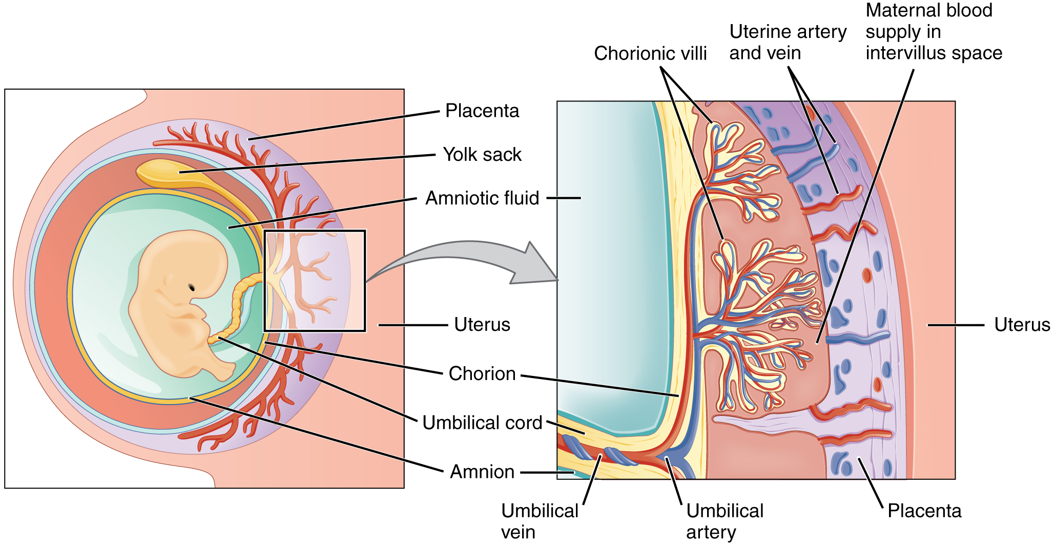 Illustration from Anatomy & Physiology, Connexions Web site. Jun 19, 2013.